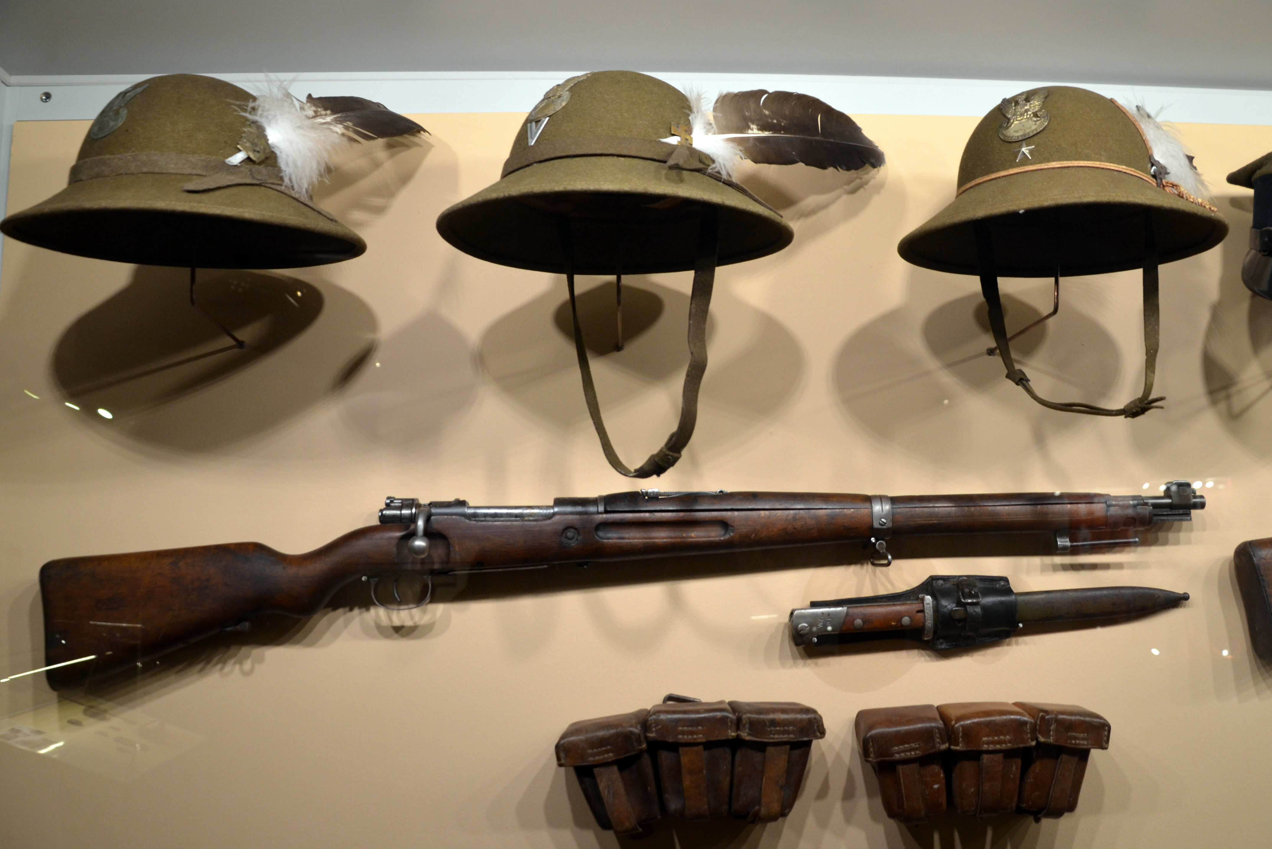 Waffen in der Zweiten Polnischen Republik 1918-1939